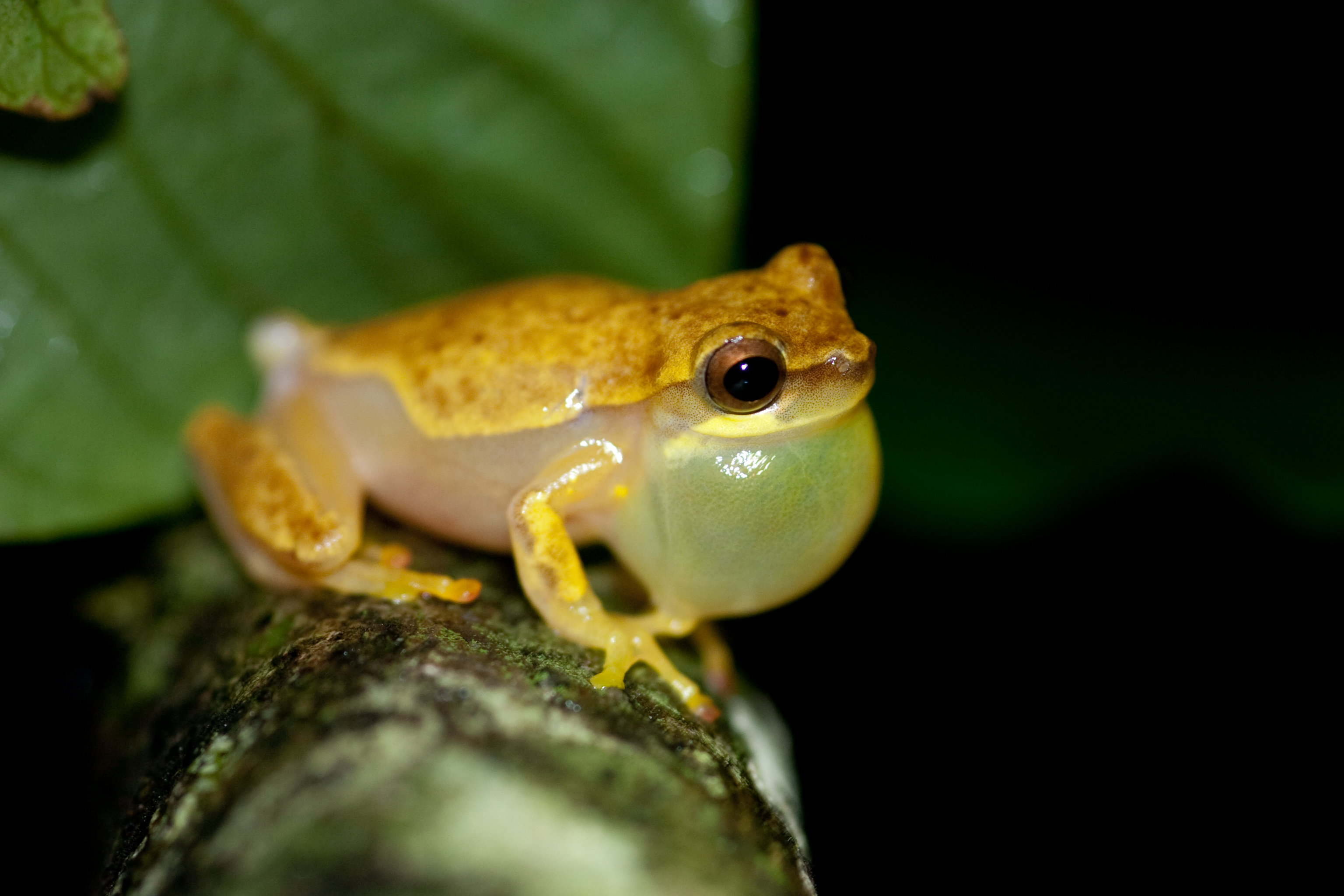 Hourglass Treefrogs (Hyla ebraccata)